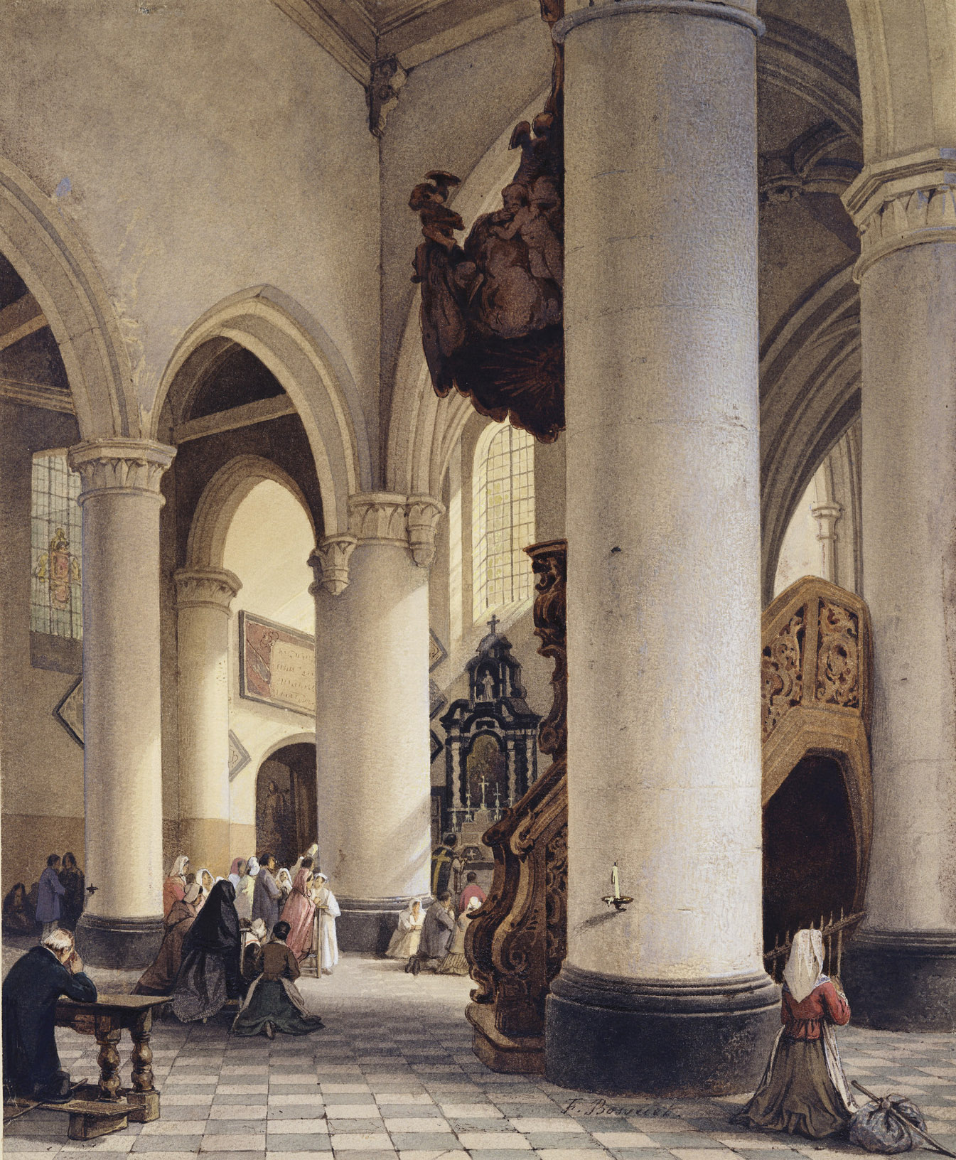 Interior of the Church of Notre-Dame at Laeken by Bossuet